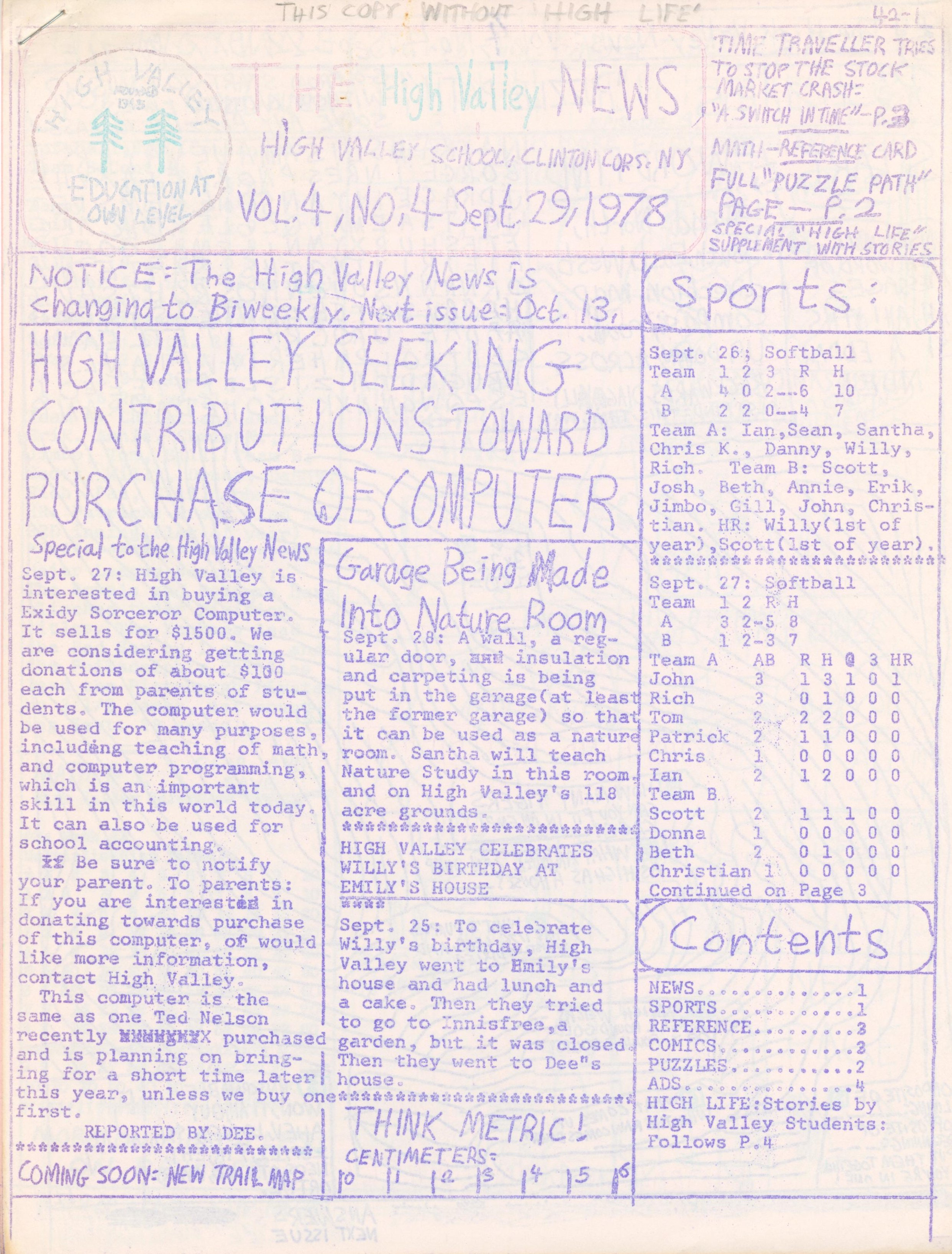 The High Valley News vol. 4 no. 4: School newspaper from 1978 published using ditto machine Somebody over on the Spirit duplicator talk page wanted to see an example of something printed on a ditto machine; here's a school newspaper I published as a teen back in 1978 at the small private school I went to. The publication itself is probably non-notable and not a Reliable Source for anything, but it does mention Ted Nelson, whose son attended that school as a classmate of mine. I'm the "Danny" on the winning Team A of the first softball game listed; the "Jimbo" on team B, however, is not Jimbo Wales.